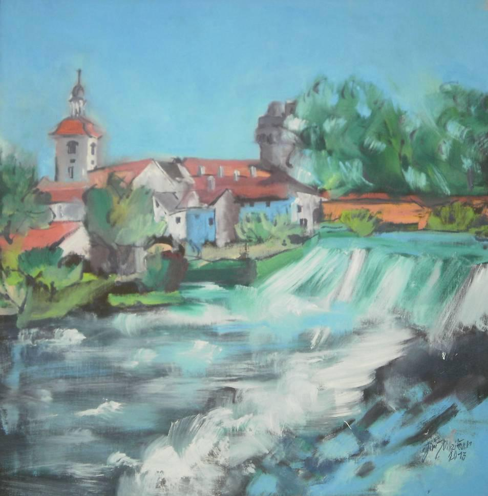 Strakonice Castle — and the Otava River. Oil on canvas painting by Jiří Meitner.